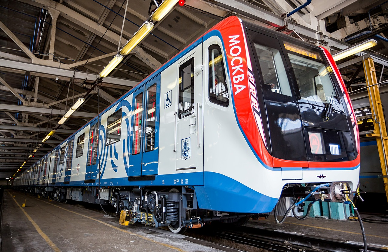 Electric subway train 81-765.2/766.2/767.2 in Fili depot of Moscow Metro, Russia